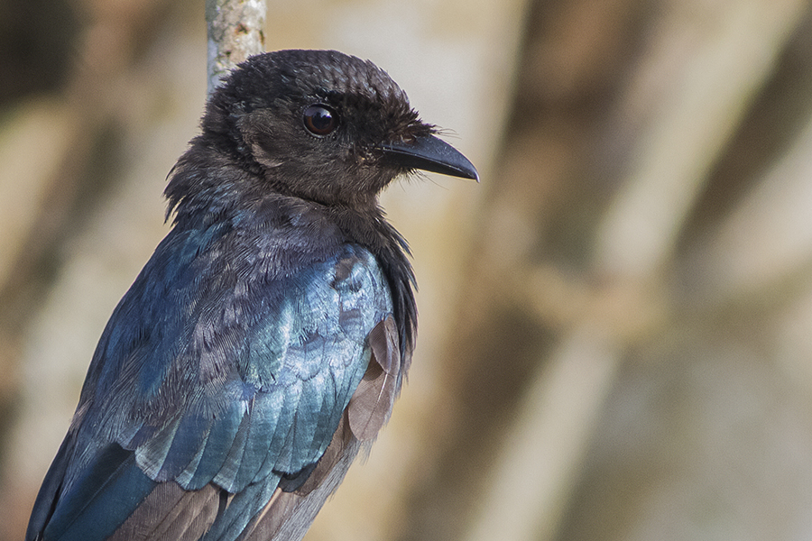 The specie Bronzed Drongo has been photographed at Sundarbans, West Bengal, India on 24.08.2014.